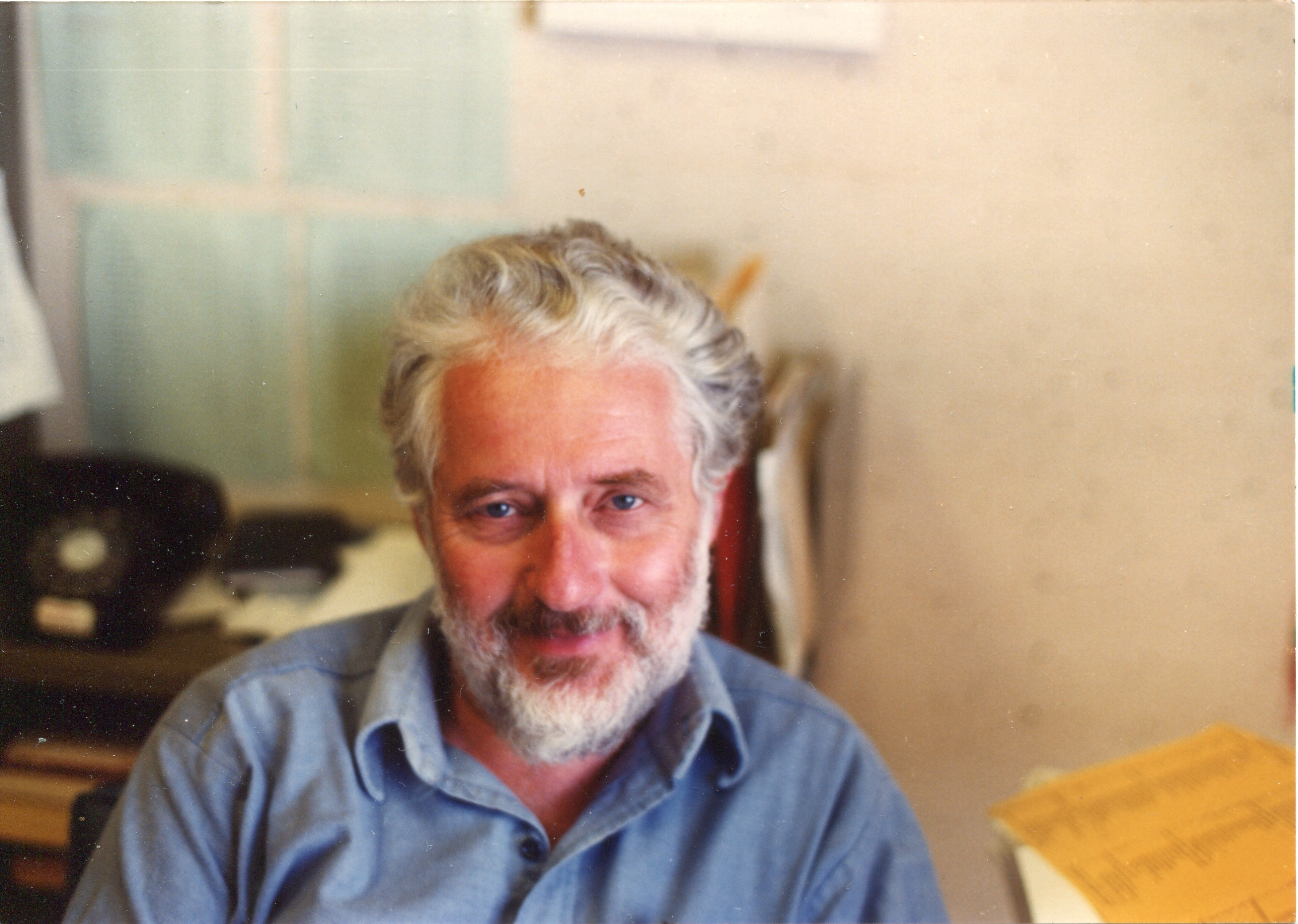 Morris W. Hirsch, Berkeley 1986